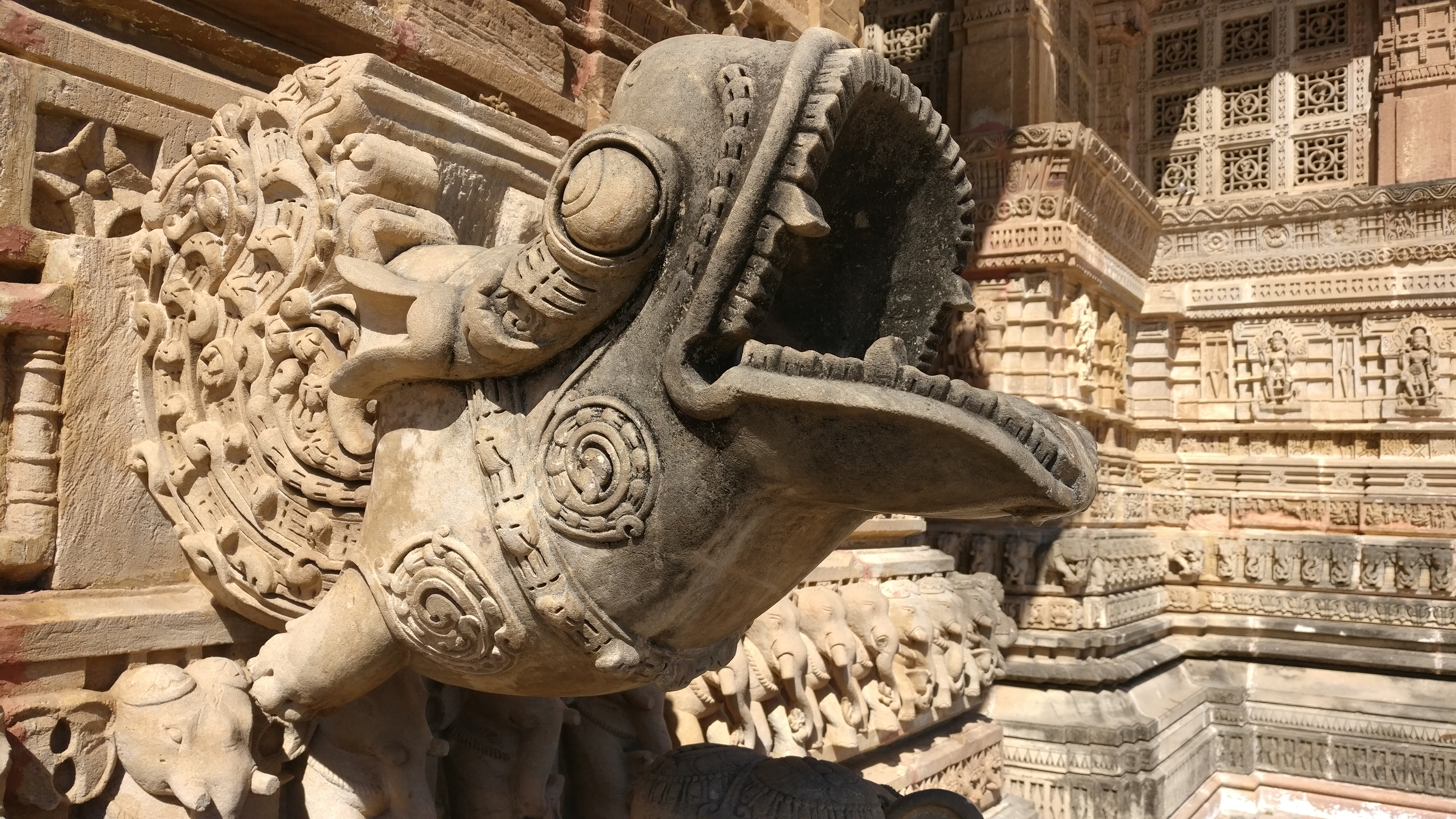 Shamlaji, also spelled Shamalaji, is a major Hindu pilgrimage centre in Aravalli district of Gujarat state of India. The Shamlaji temple is dedicated to Vishnu or Krishna. Several other Hindu temples are located nearby